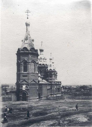 Kazan Church in Stalingrad (Tsaritsyn)